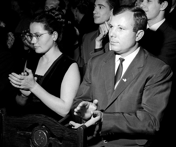 Yuri Gagarin and his wife Valentina Goryacheva are applauding the Company of the Teatro alla Scala who has just performed the 'Turandot'. Bolshoi Theatre, Moscow, September 1964.